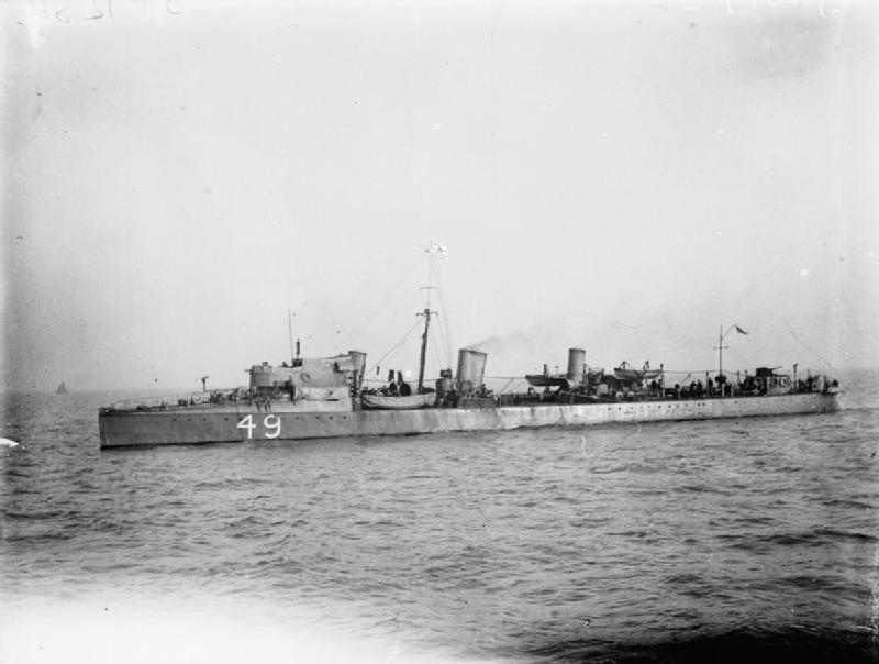 Photograph of British Brazen class destroyer HMS Kestrel (John Brown/J&G Thompson 30-knot destroyer) working on the Dover patrol.